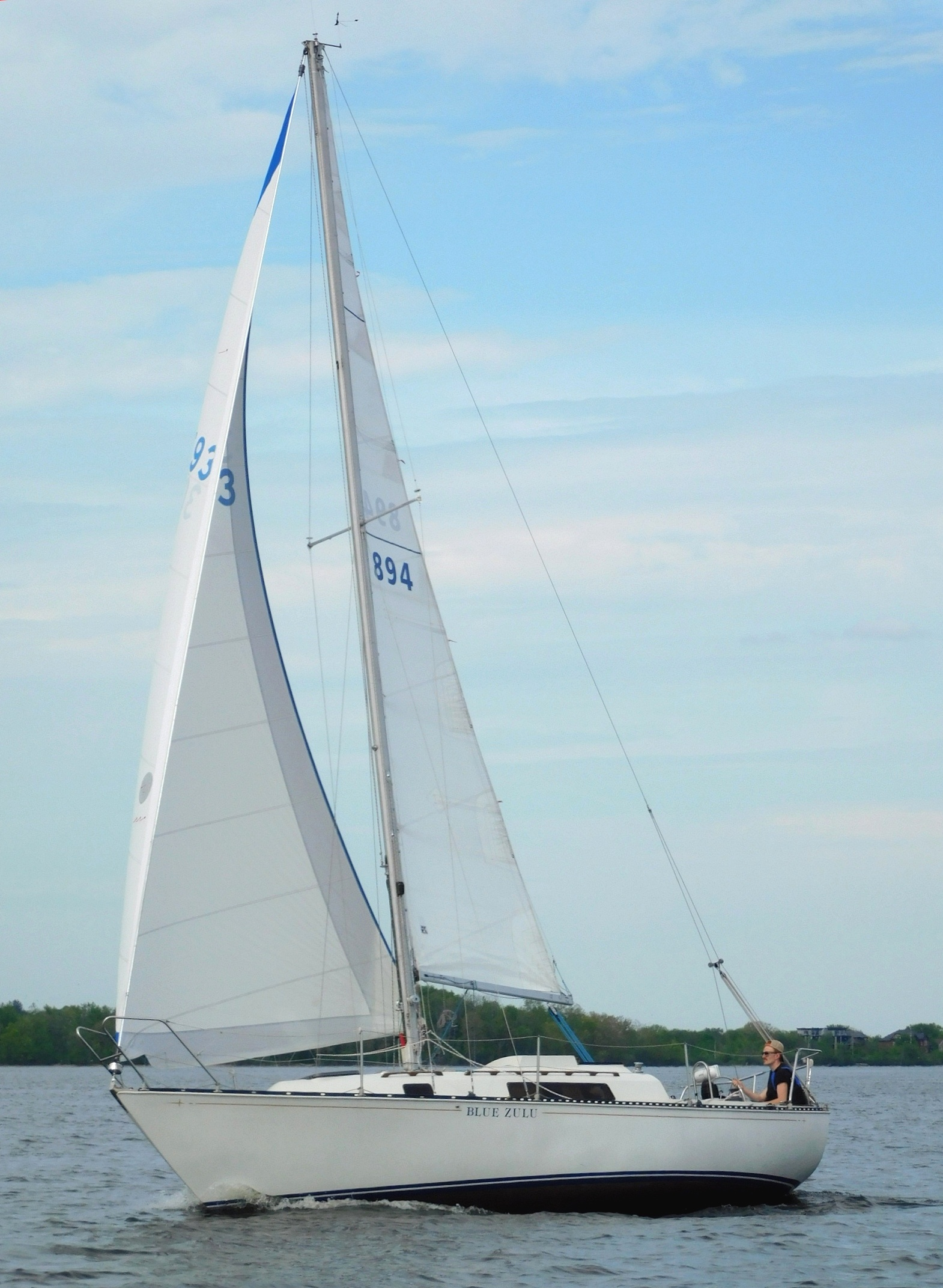 A C&C 27 Mk 3 sailboat named Blue Zulu.